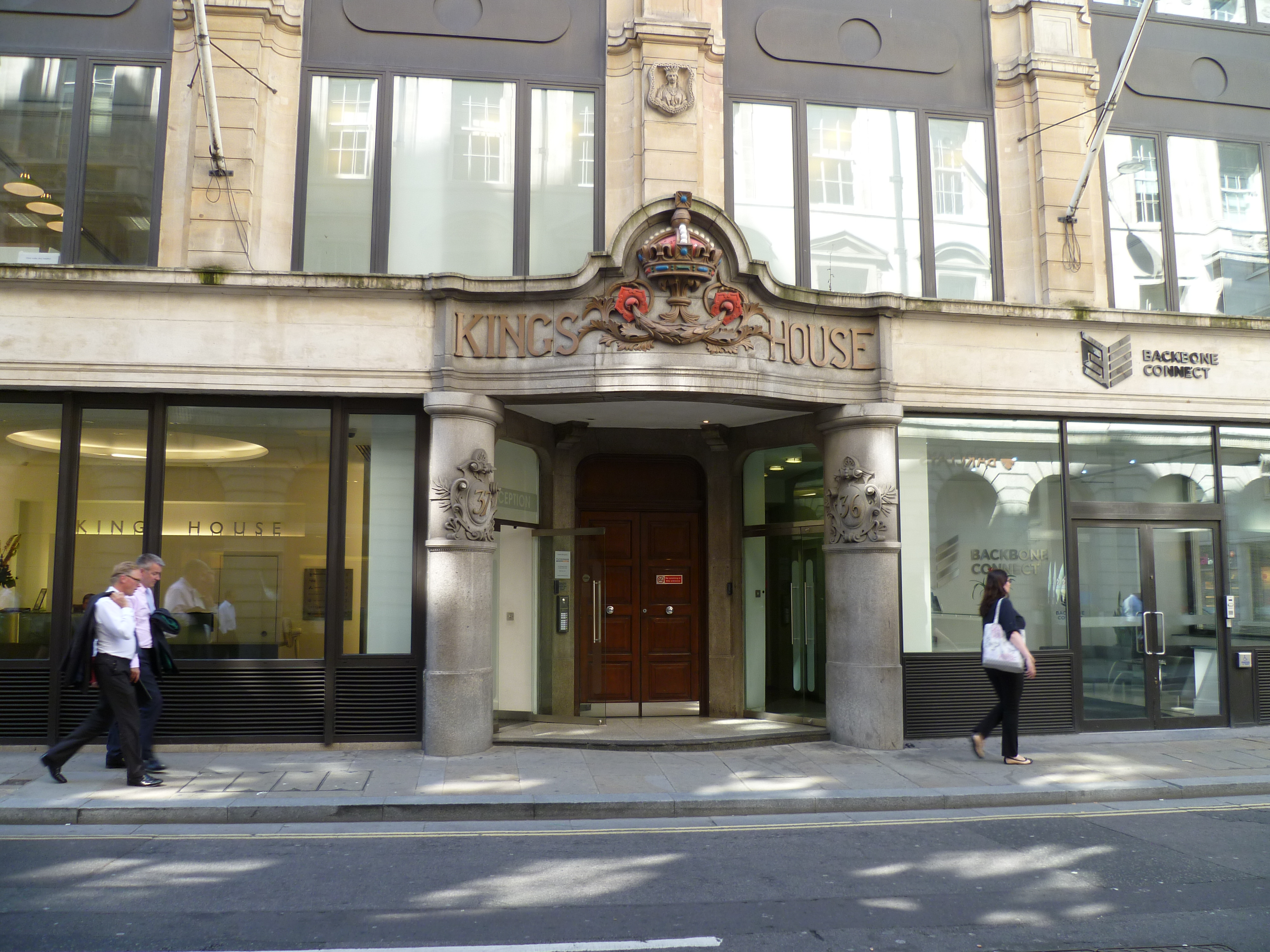 London